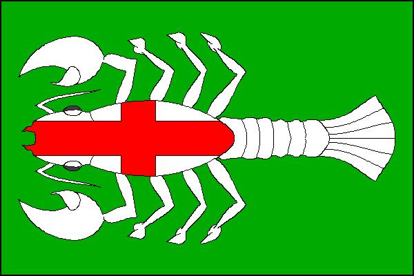 Flag of Střeň, Olomouc District